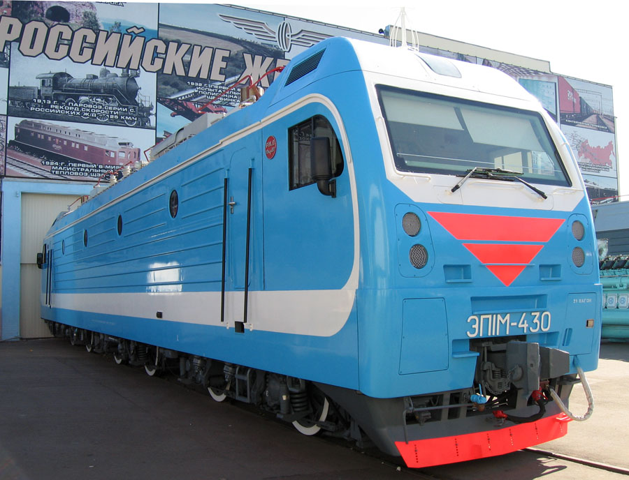 Russian locomotive EP1M.